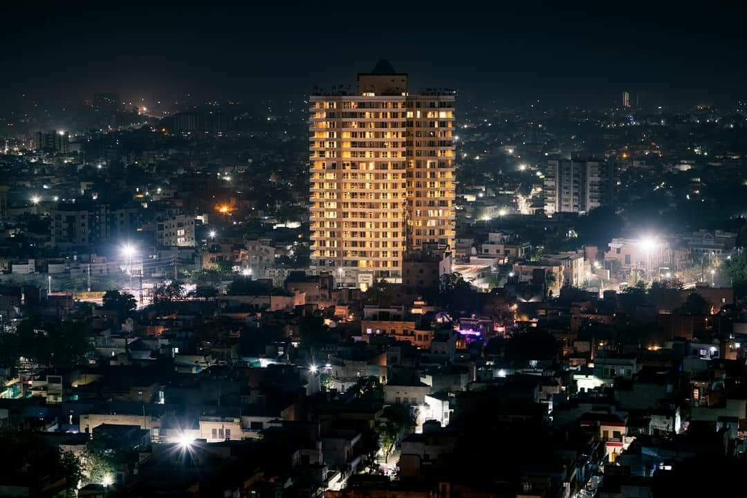 Arihant Ayati